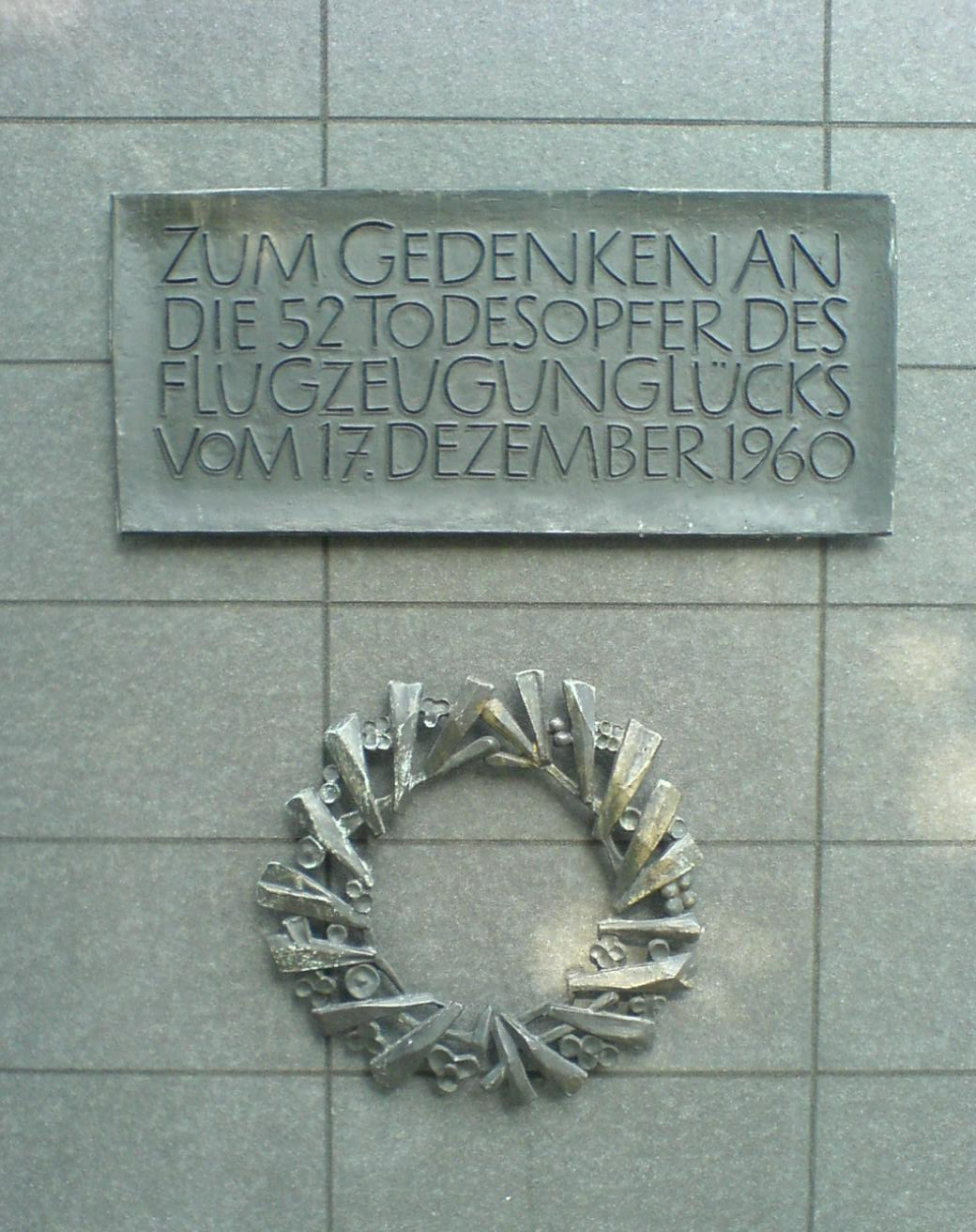 Munich air accident (1960) commemorative plaque